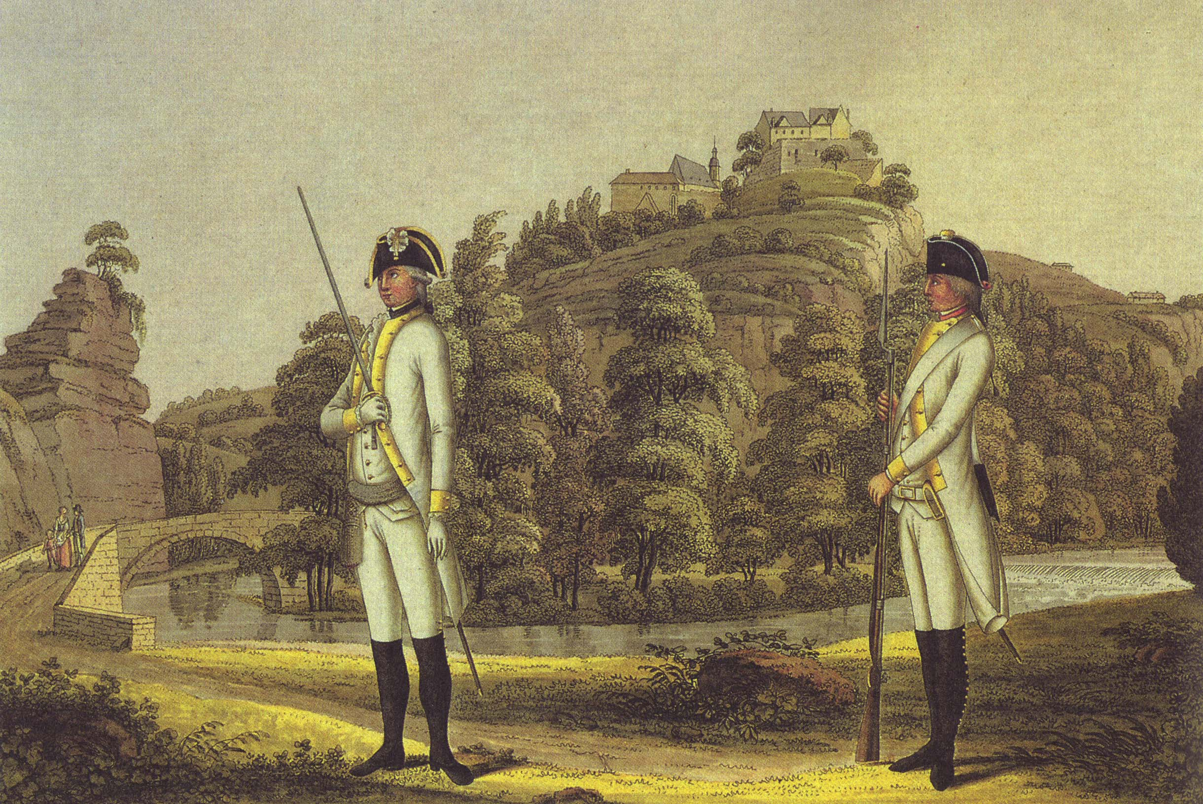 musketeer officer (left) and soldier from saxon infantry regiment "Prinz Maximilian" in front of castle "Wolkenstein" in Saxony (1791)